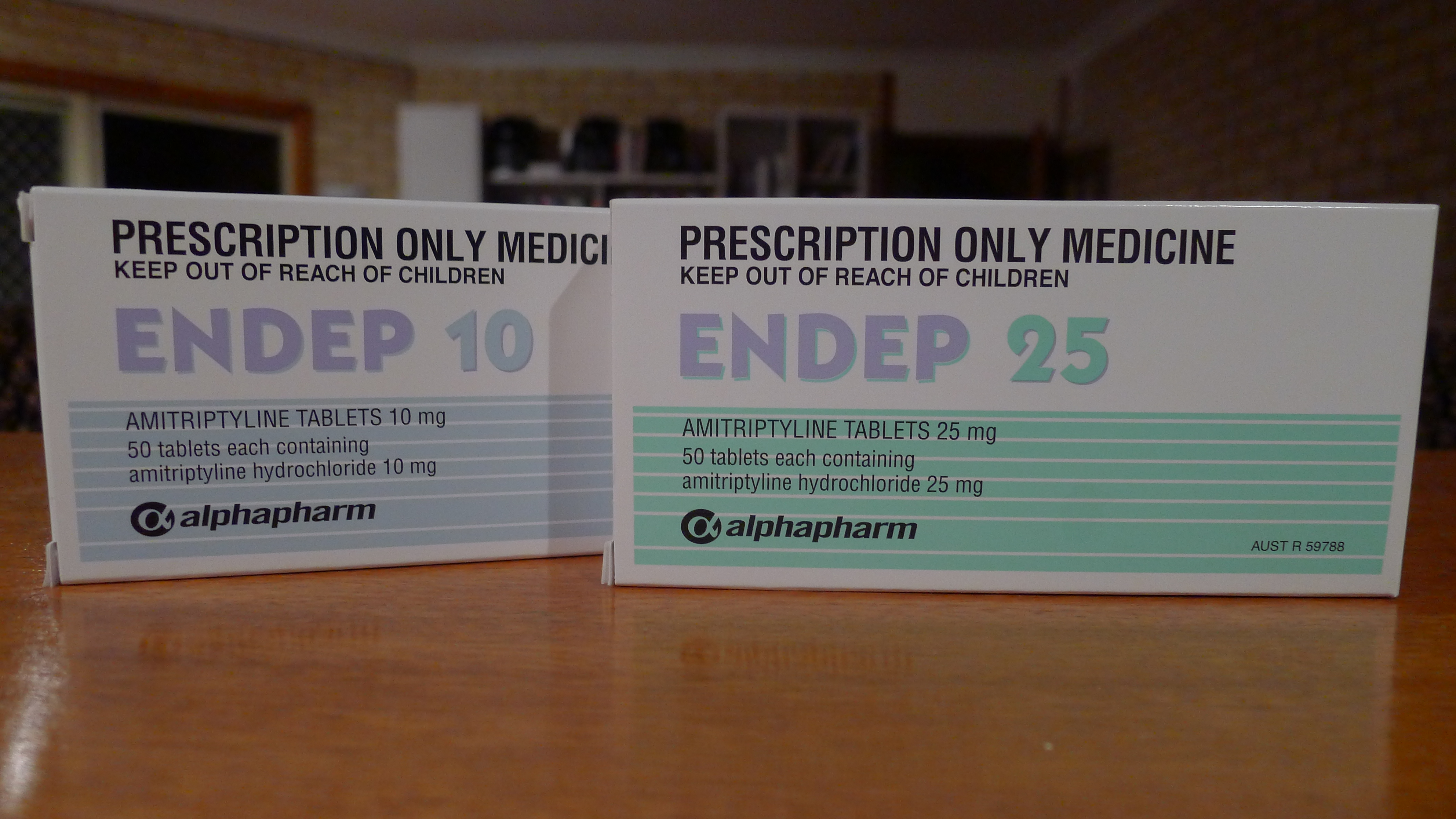 Two boxes of Endep in 10mg and 25mg.